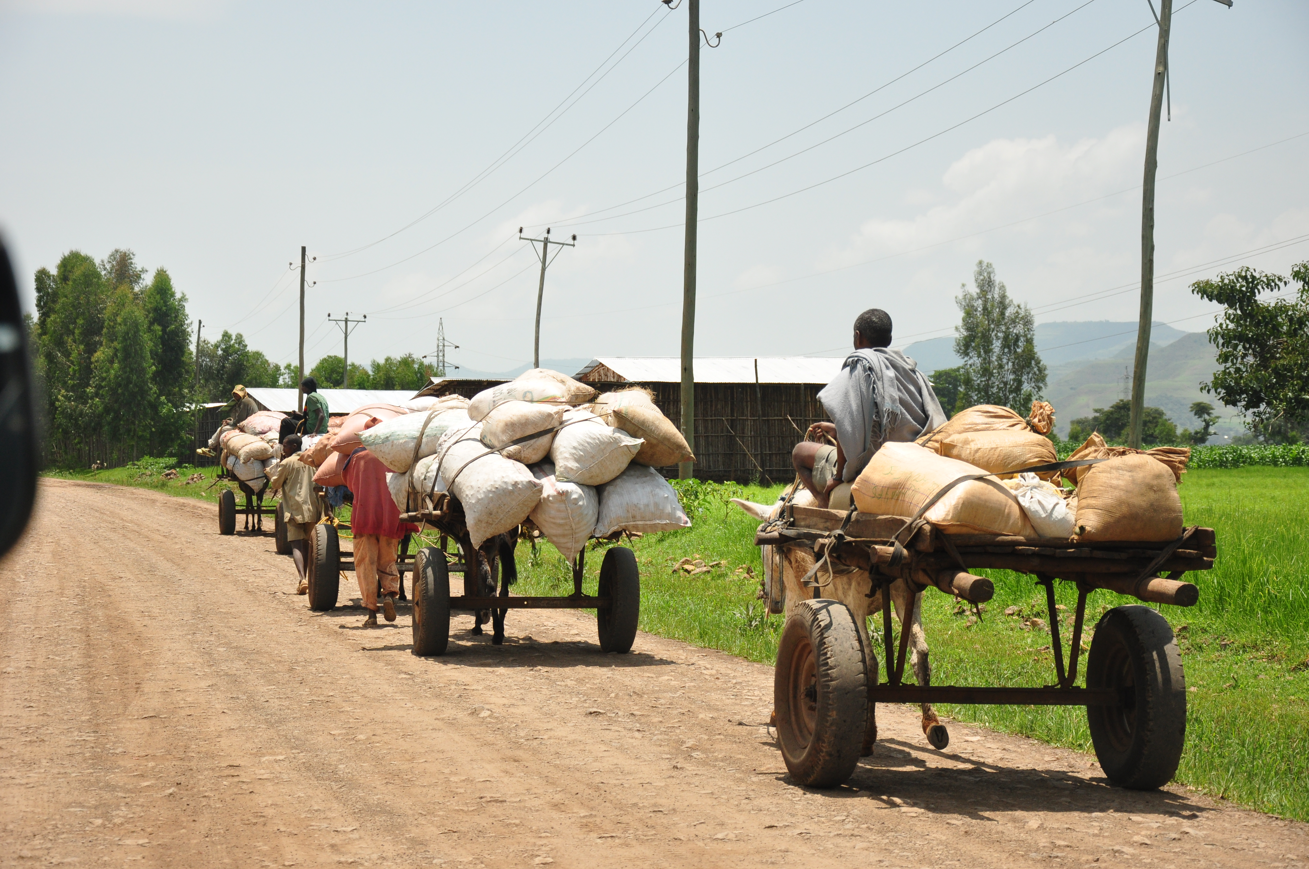 Transporting food to the market in rural Ethiopia This is an image of food from Ethiopia